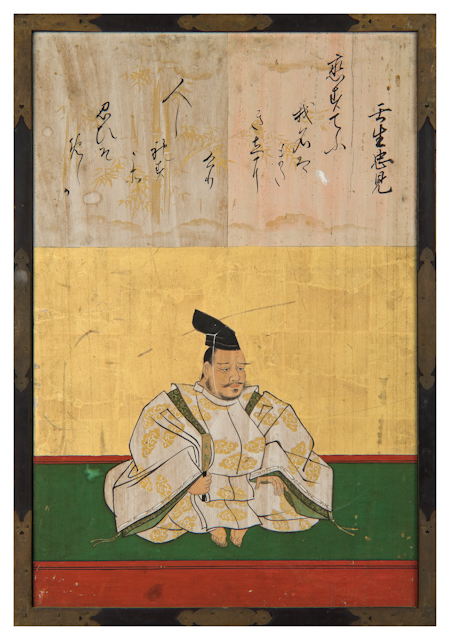 Sanjūrokkasen-gaku (Thirty-six Poetry Immortals framed picture) #35: Mibu no Tadami